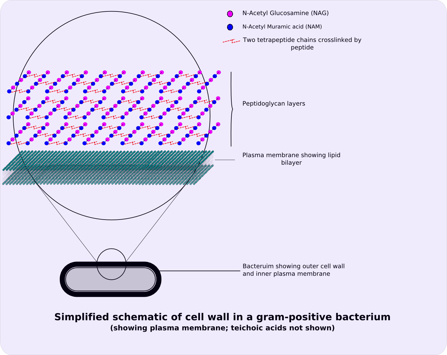 Schematic of gram-positive cell wall showing plasma membrane. Made in Inkscape.